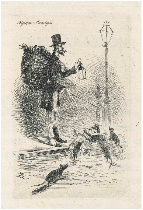 Alpha-Oméga, etching from L'Art d'aimer les livres by Jules Le Petit, published in Paris, printed by Georges Chamerot.